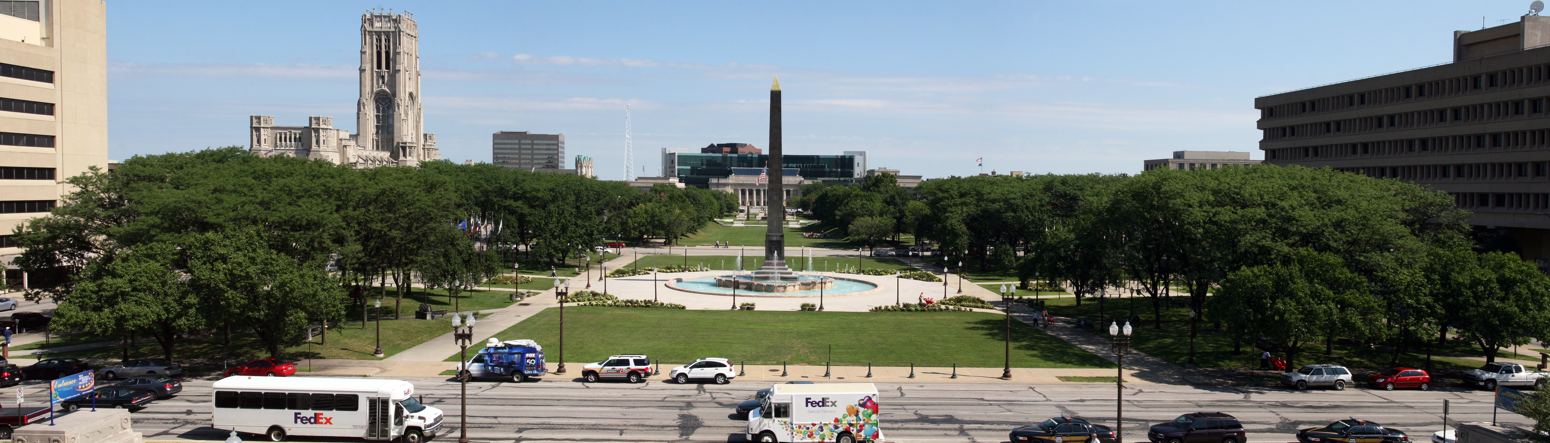 Looking north from the Indiana War Memorial across Veterans Memorial Plaza in Indianapolis, Indiana.